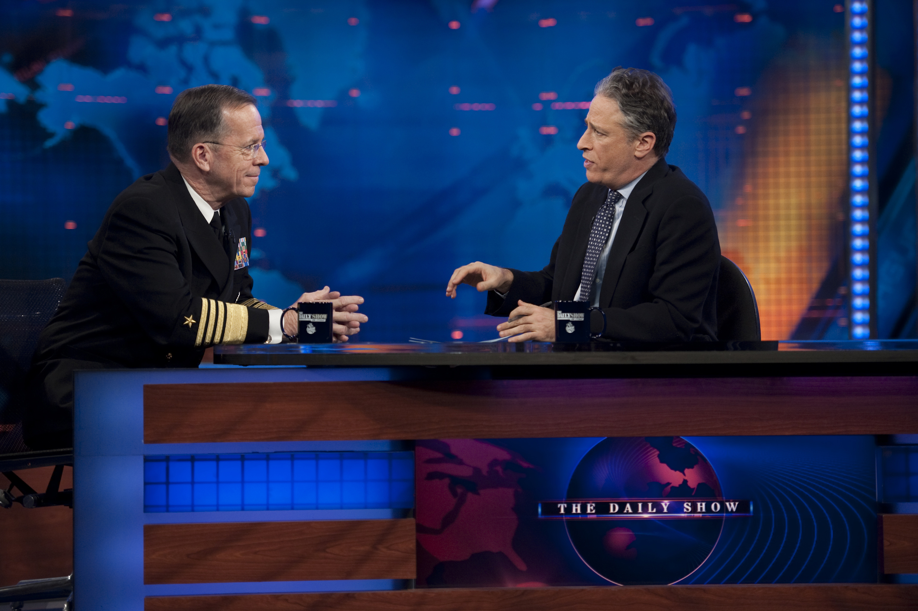 Chairman of the Joint Chiefs of Staff Adm. Mike Mullen, U.S. Navy, appears on The Daily Show with Jon Stewart in New York City on Feb. 3, 2011.